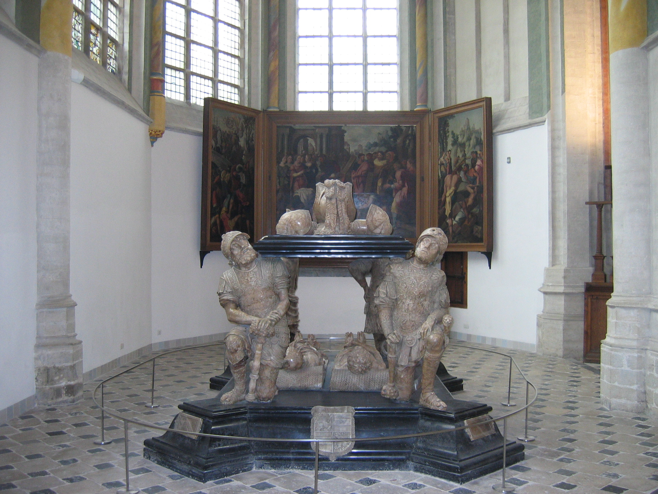 Memorial tomb of Engelbrecht II of Nassau and his wife. Grote Kerk, Breda, Netherlands